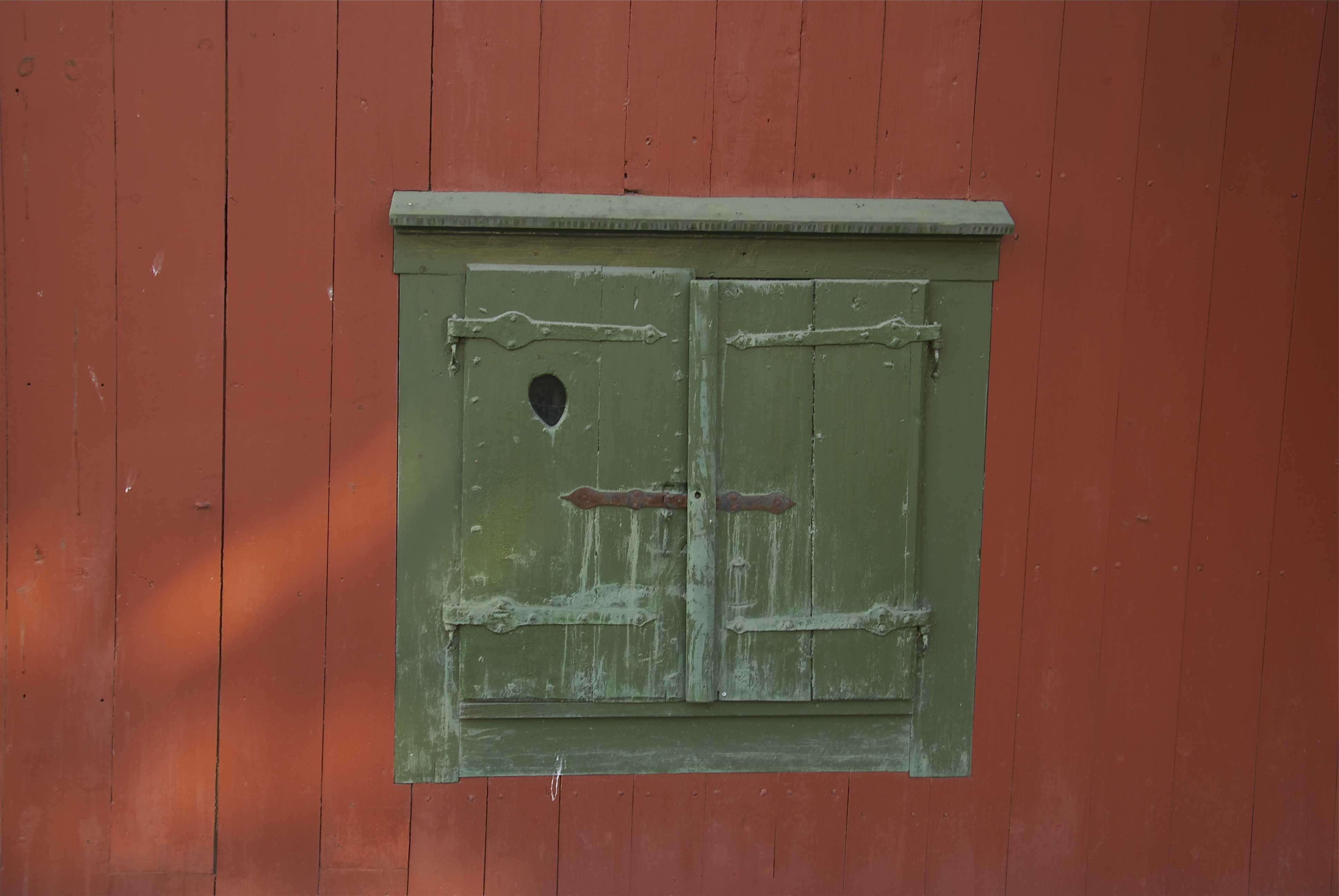 Låga längan november 2011